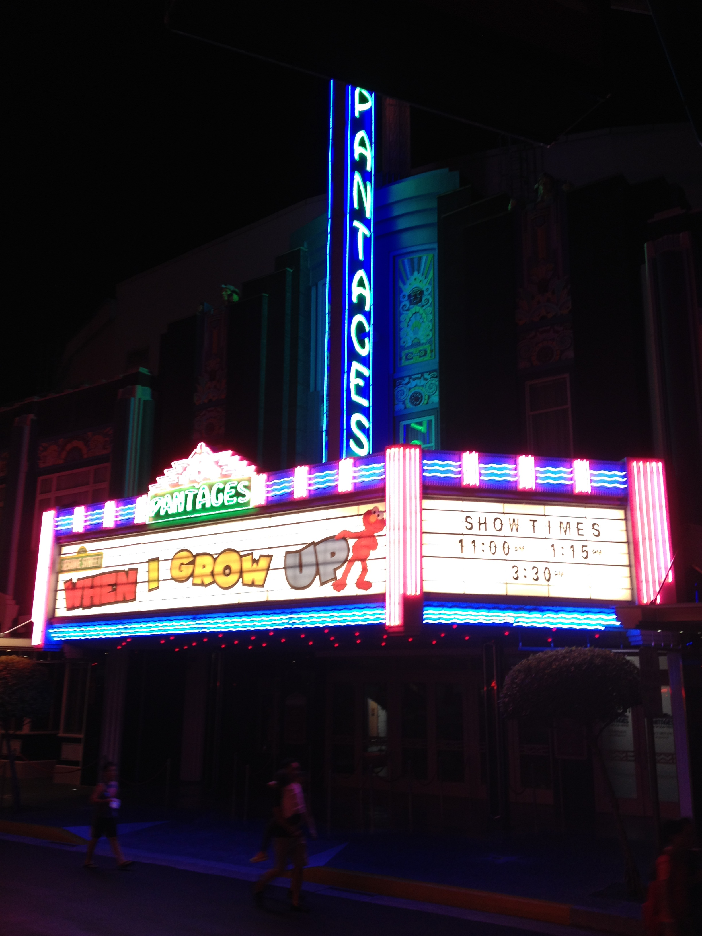 Night view of the Pantages Hollywood Theater located on Hollywood Boulevard, Universal Studios Singapore